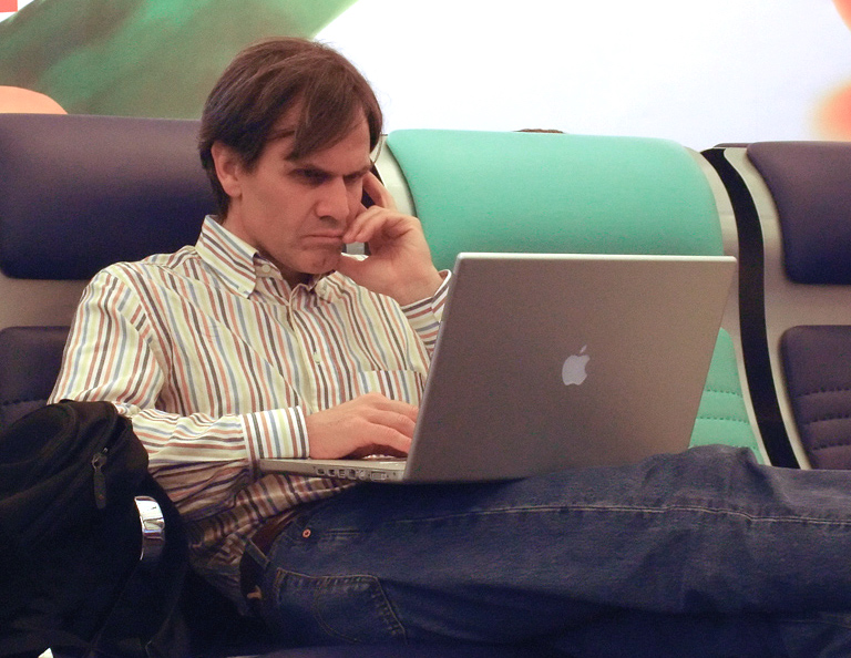 Aaron Sorkin at the John F. Kennedy International Airport in New York City, New York, United States. Alternate version with color balance fixed, cropped, de-noised.Worried.